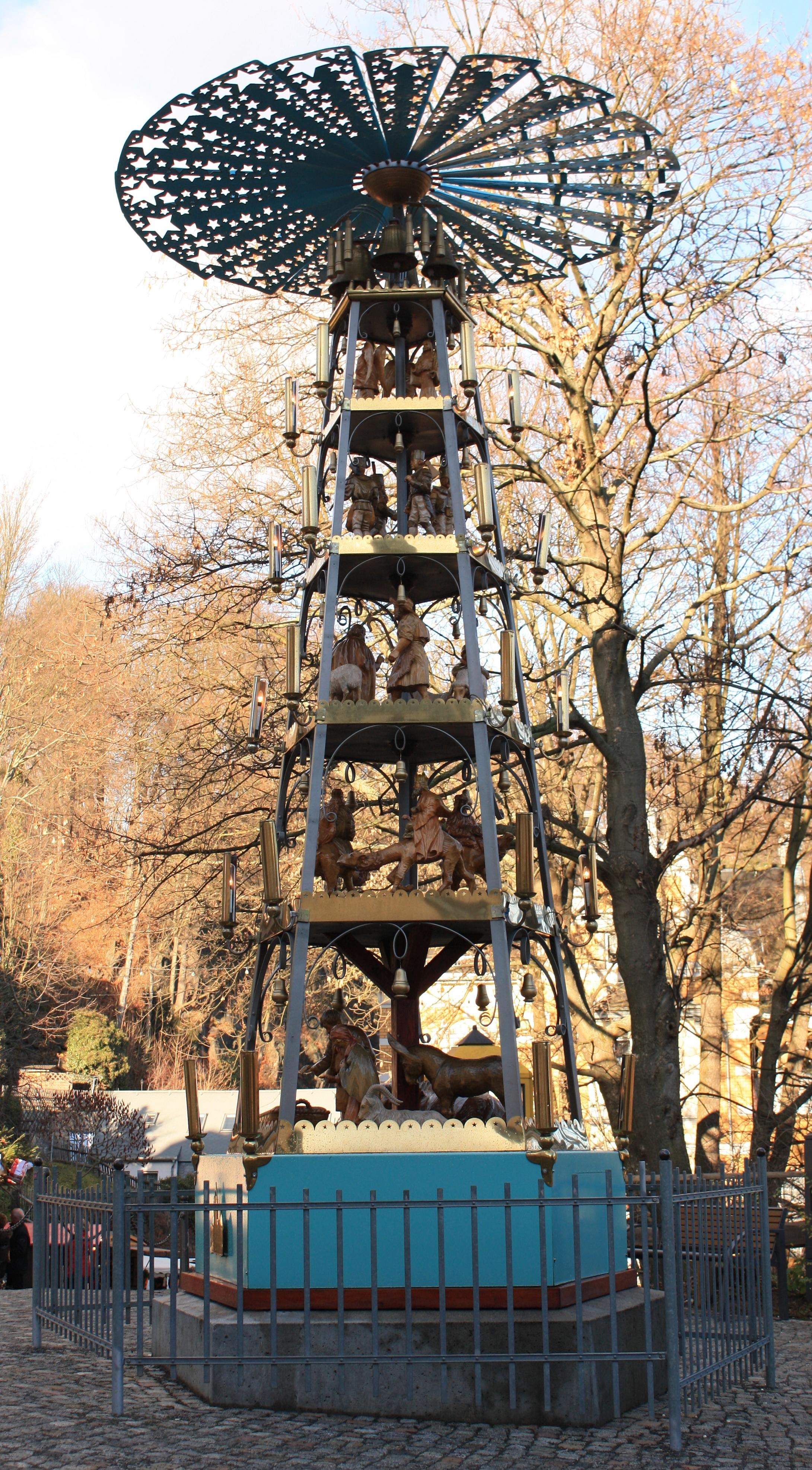 Schwarzenberg/Erzgebirge: Krauss Pyramide